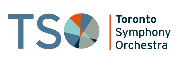 The Toronto Symphony Orchestra logo